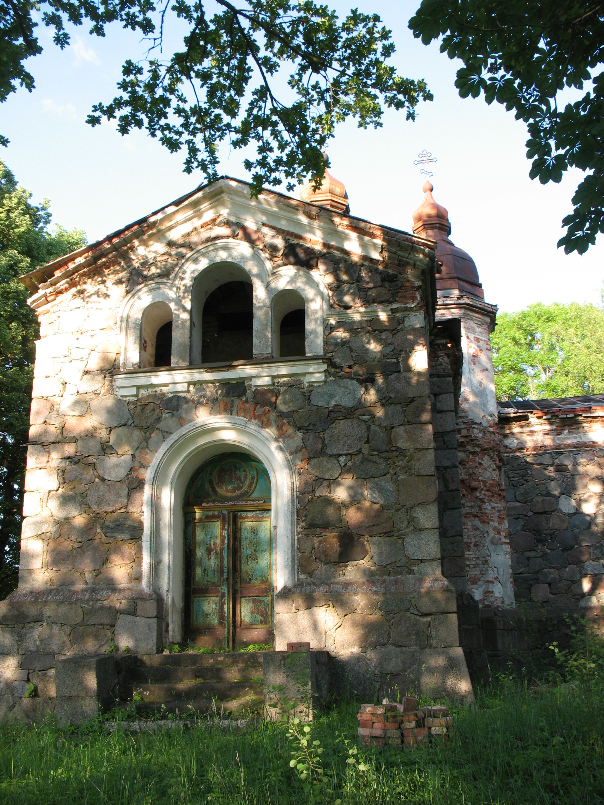 Tartu maakond, Puhja vald, Mõisanurme küla